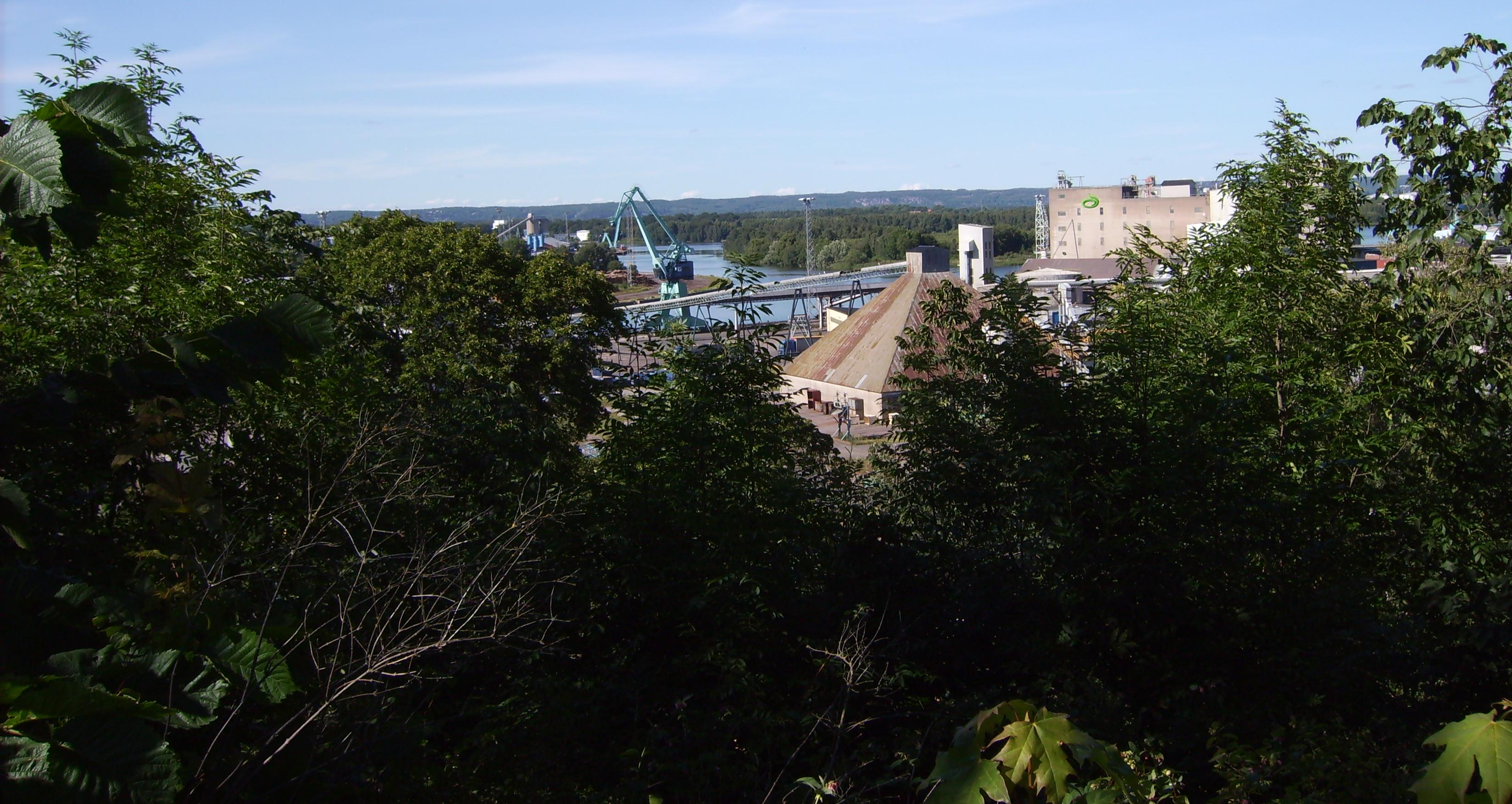 The area Sylten in Norrköping.